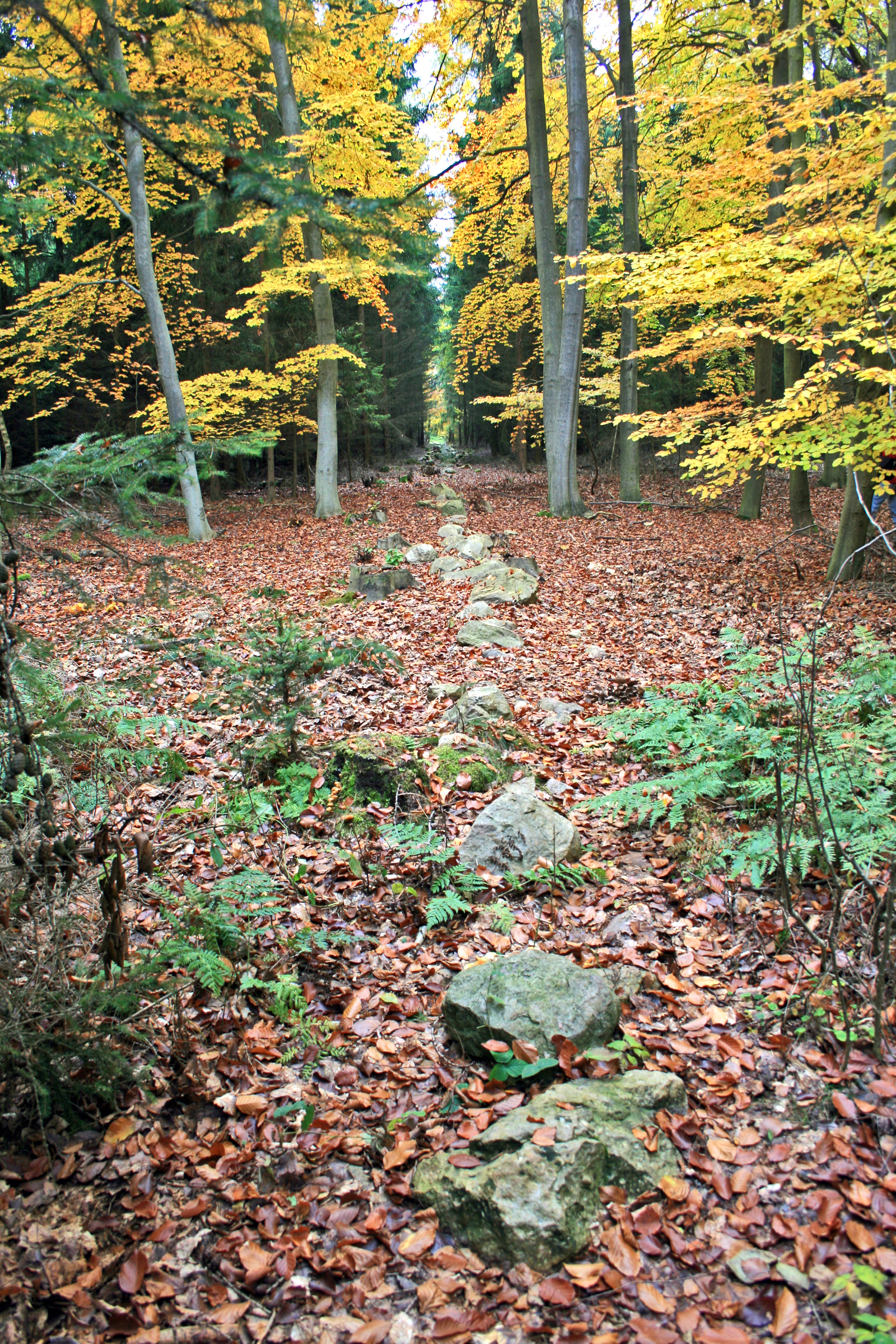 Stone rows near Kounov in central Bohemia, Czech Republic